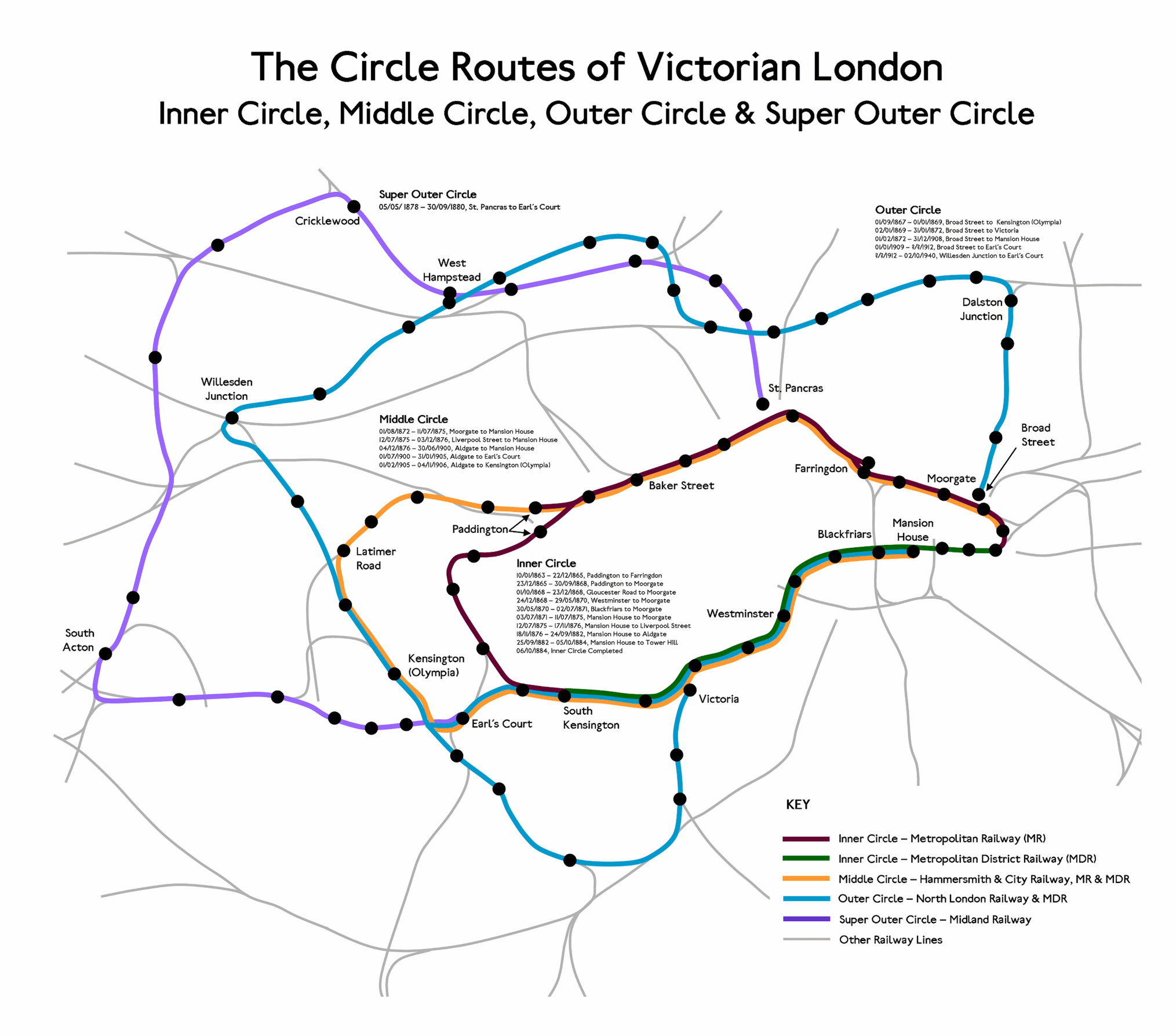 Map of the Circle Routes of Victorian London showing: Inner Circle Middle Circle Outer Circle Super Outer Circle